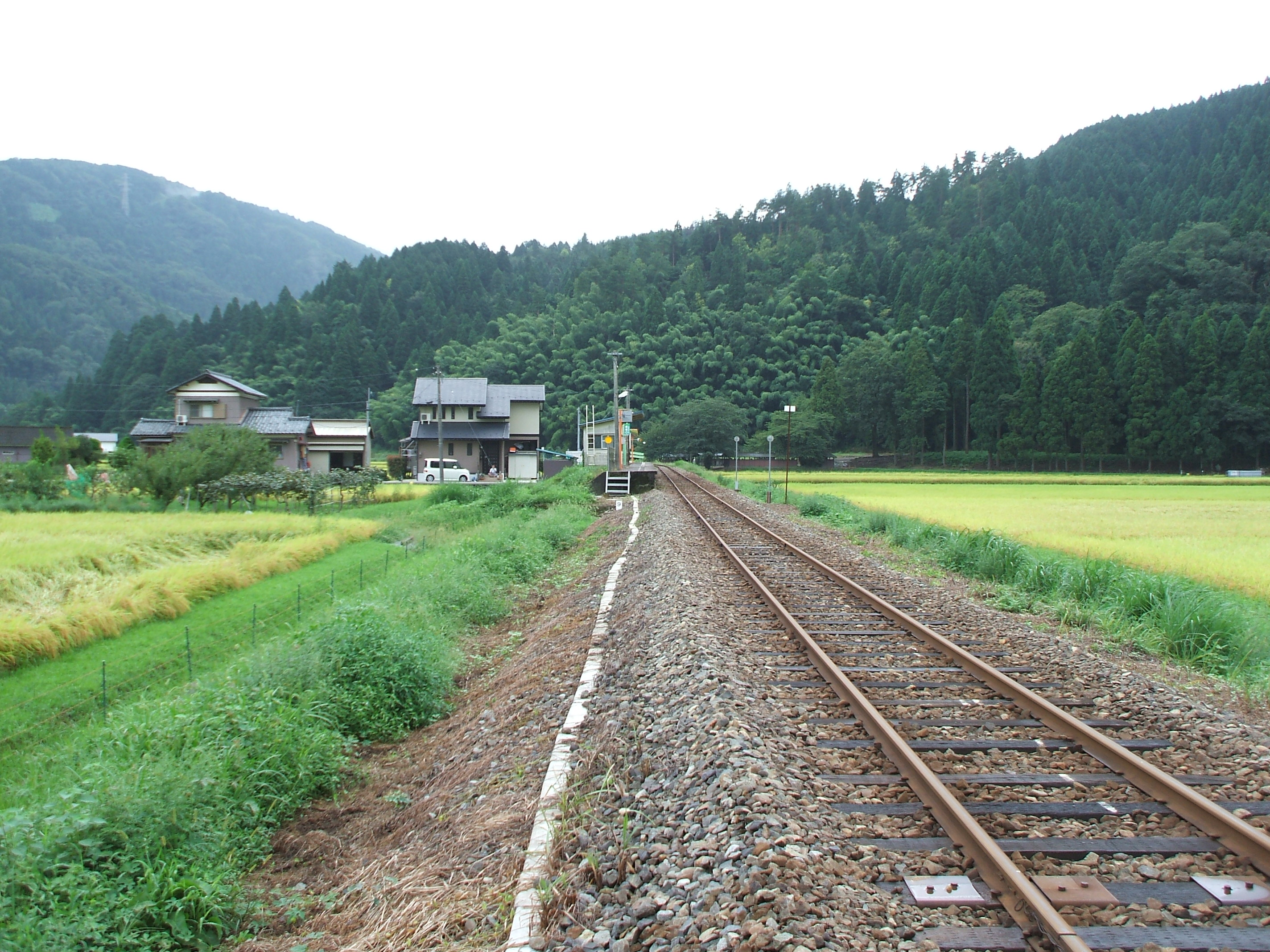 JR West Ichijōdani Station from north